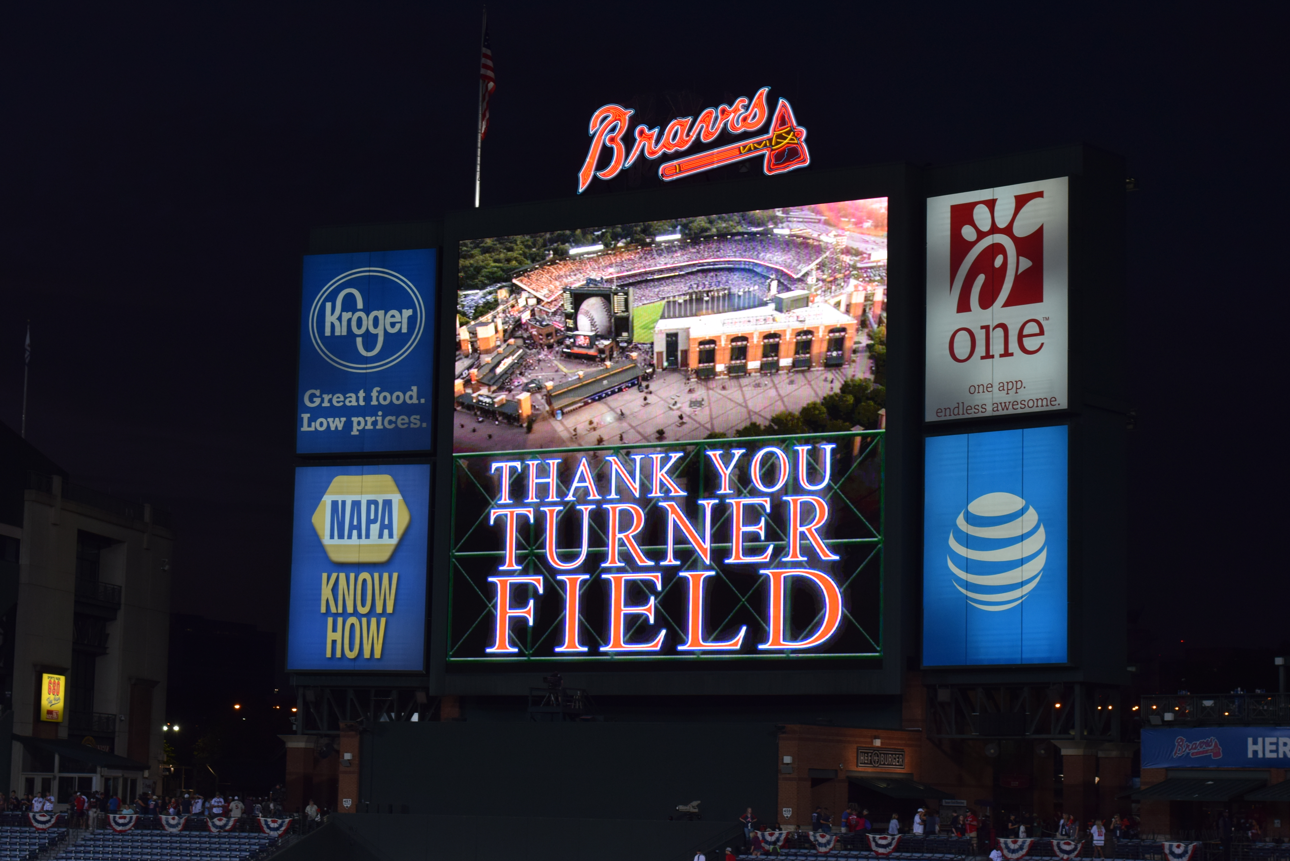 The video board at the stadium displays a thank you message to Turner Field following the conclusion of the post game ceremonies.